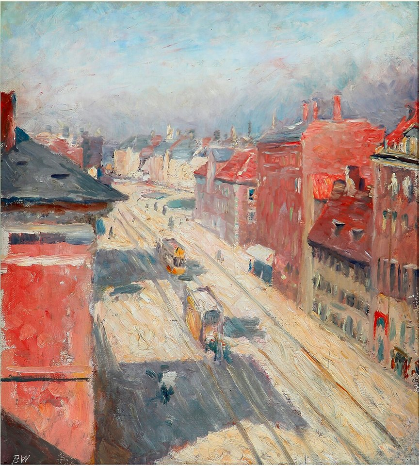 View from one of the studios in Holckenhus of Vester Voldgade in Copenhagen, Denmark